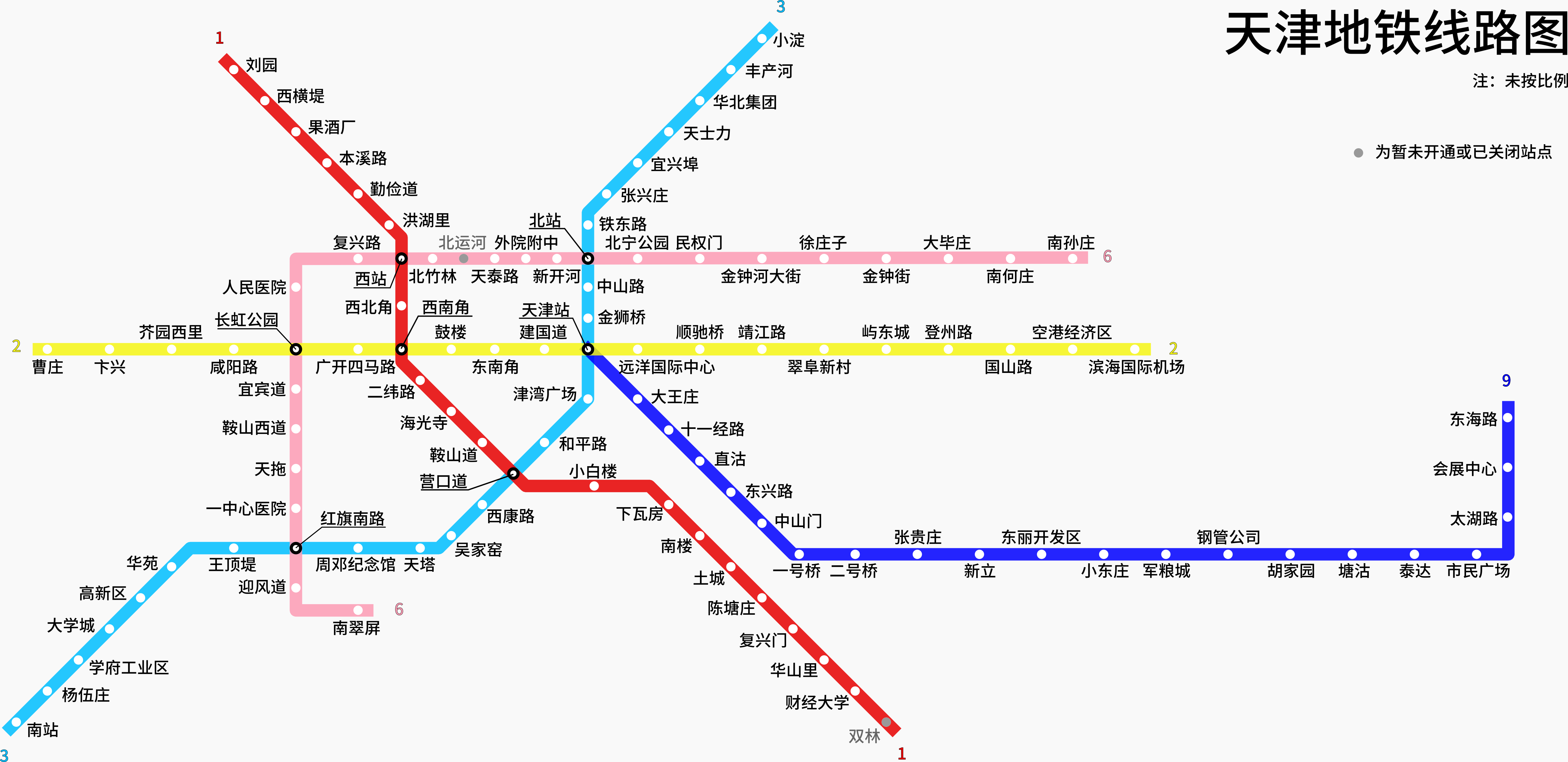 This is a recreation of File:Tianjin_Metro_System_Map_zh.png using Inkscape.